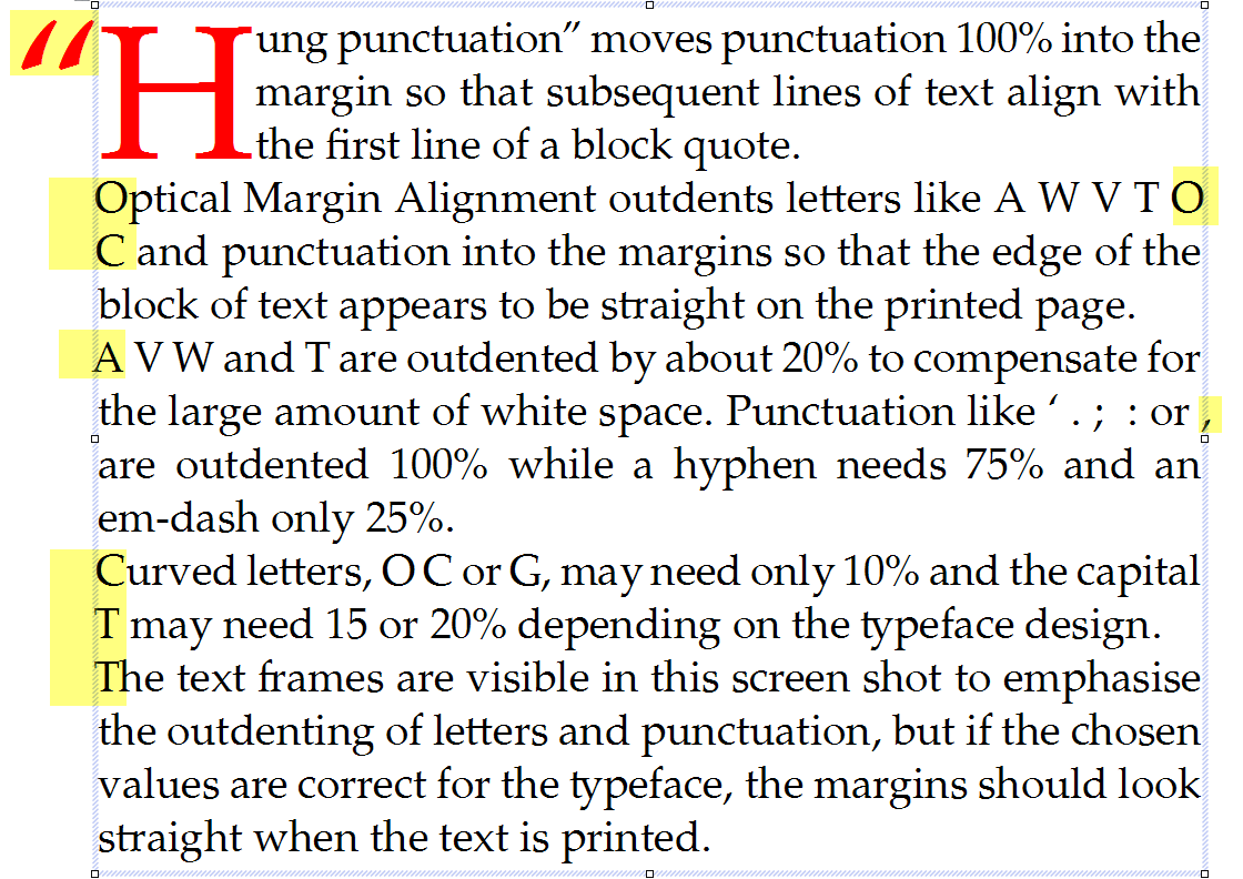 Illustration of Optical Margin Alignment in use